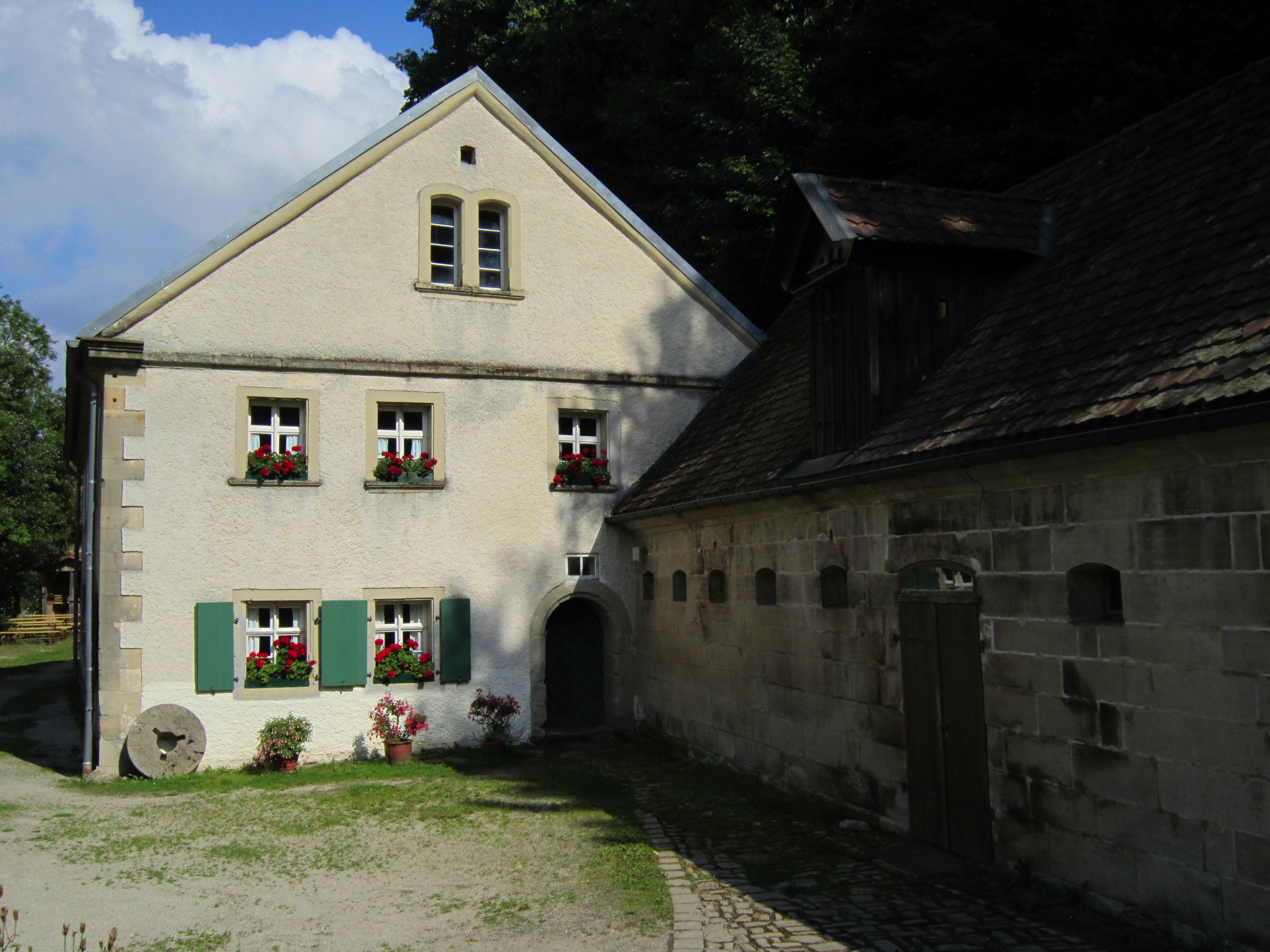 Watermill "Scherzenmühle" in Weidenberg (Landkreis Bayreuth)